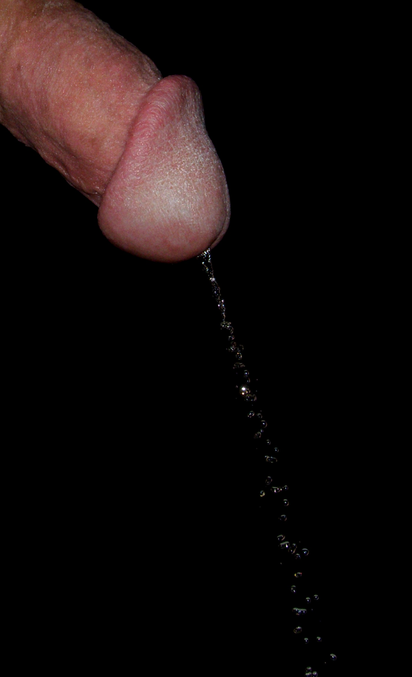 Male urination, cropped version